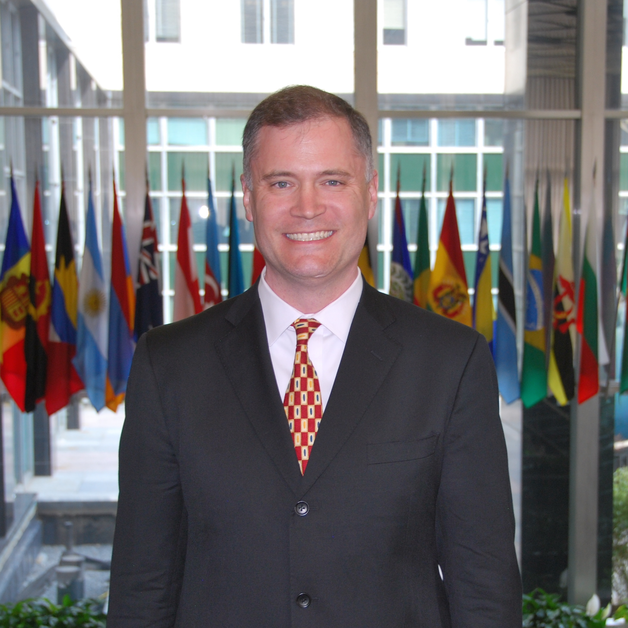 Head shot of Daniel Oerther in the lobby of the United States Department of State Harry S Truman headquarters building.